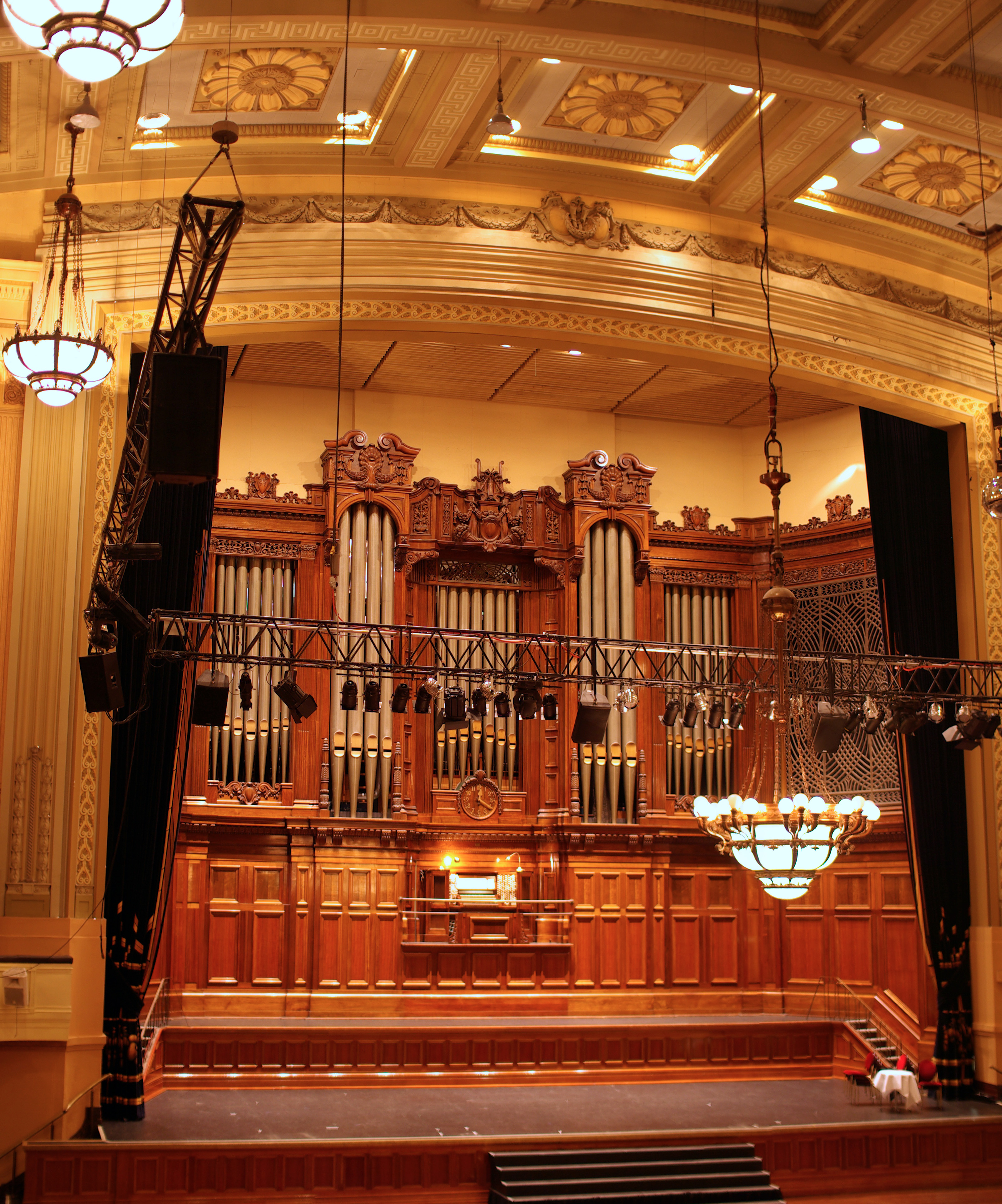 The stage and pipe organ in the Melbourne Town Hall, Melbourne.